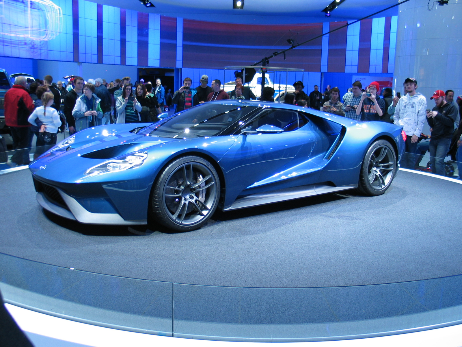 2017 Ford GT front